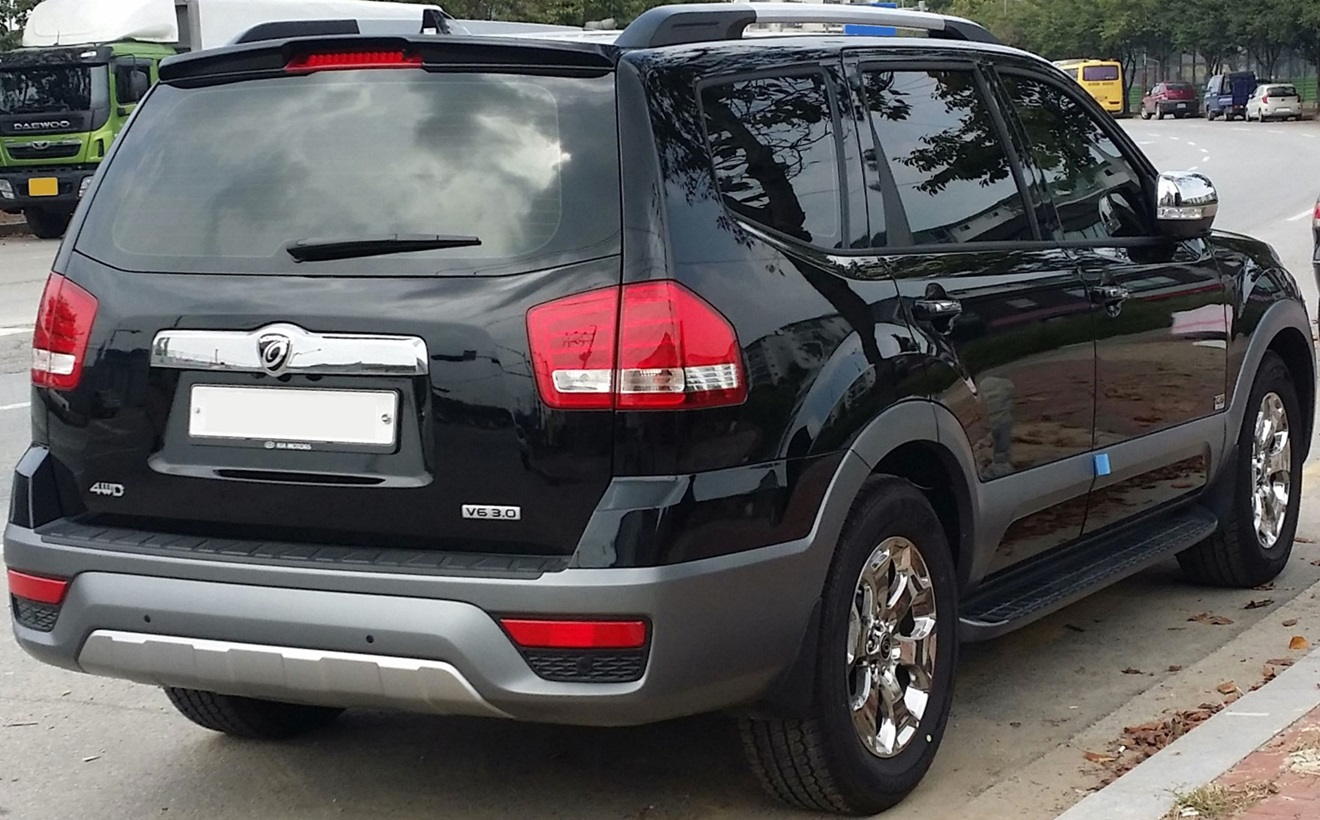 Kia Mohave